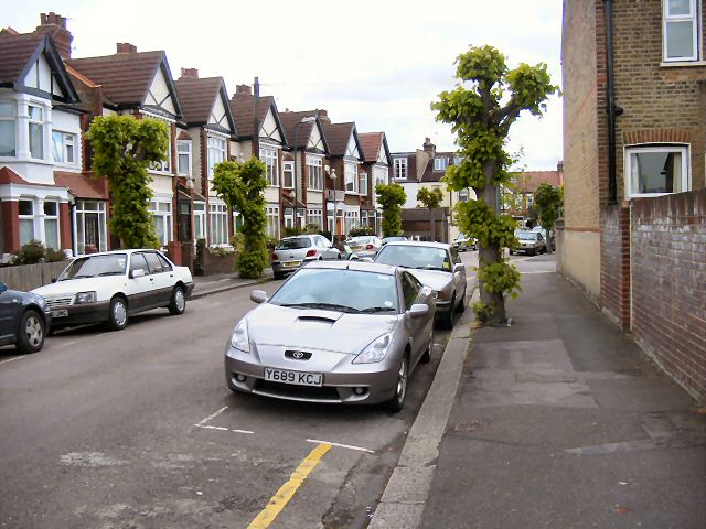 Shelton Road, Wimbledon. A pleasantly quiet residential road just south of the high street.